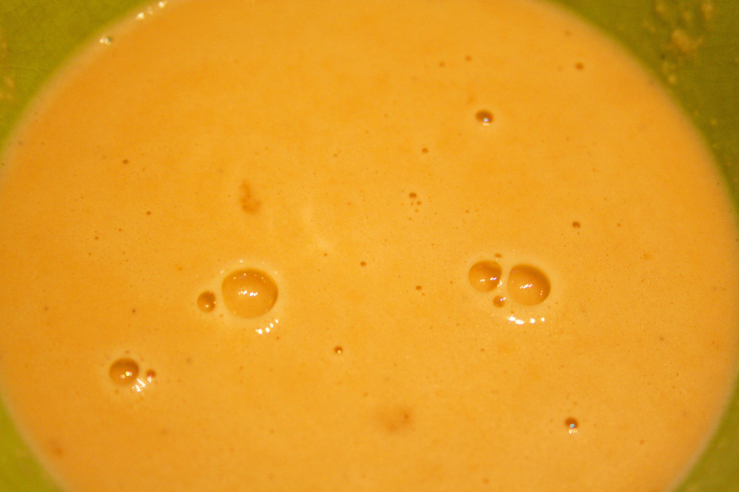 Course 4: Roasted walnuts soaked with a vanilla bean in cream, pears poached in white wine, pureed and strained.